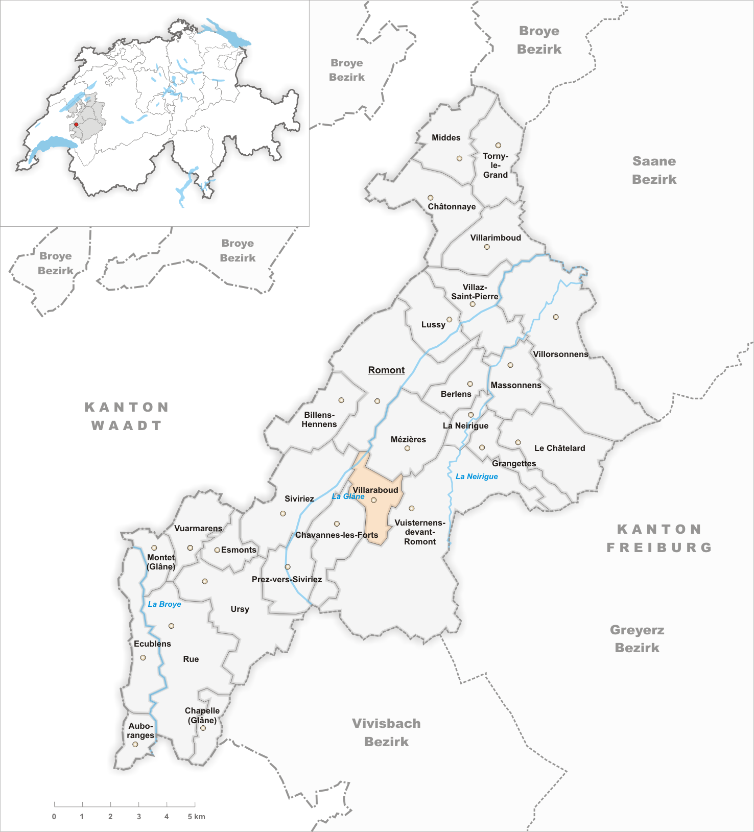 Municipality Villaraboud Artist: Tschubby